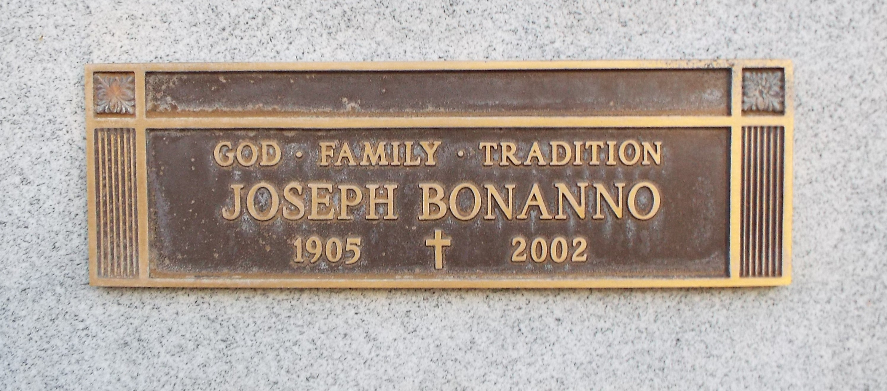 Historic Holy Hope Cemetery-Crypt of US Mafia founding father Joseph Bonanno in Tucson, Arizona